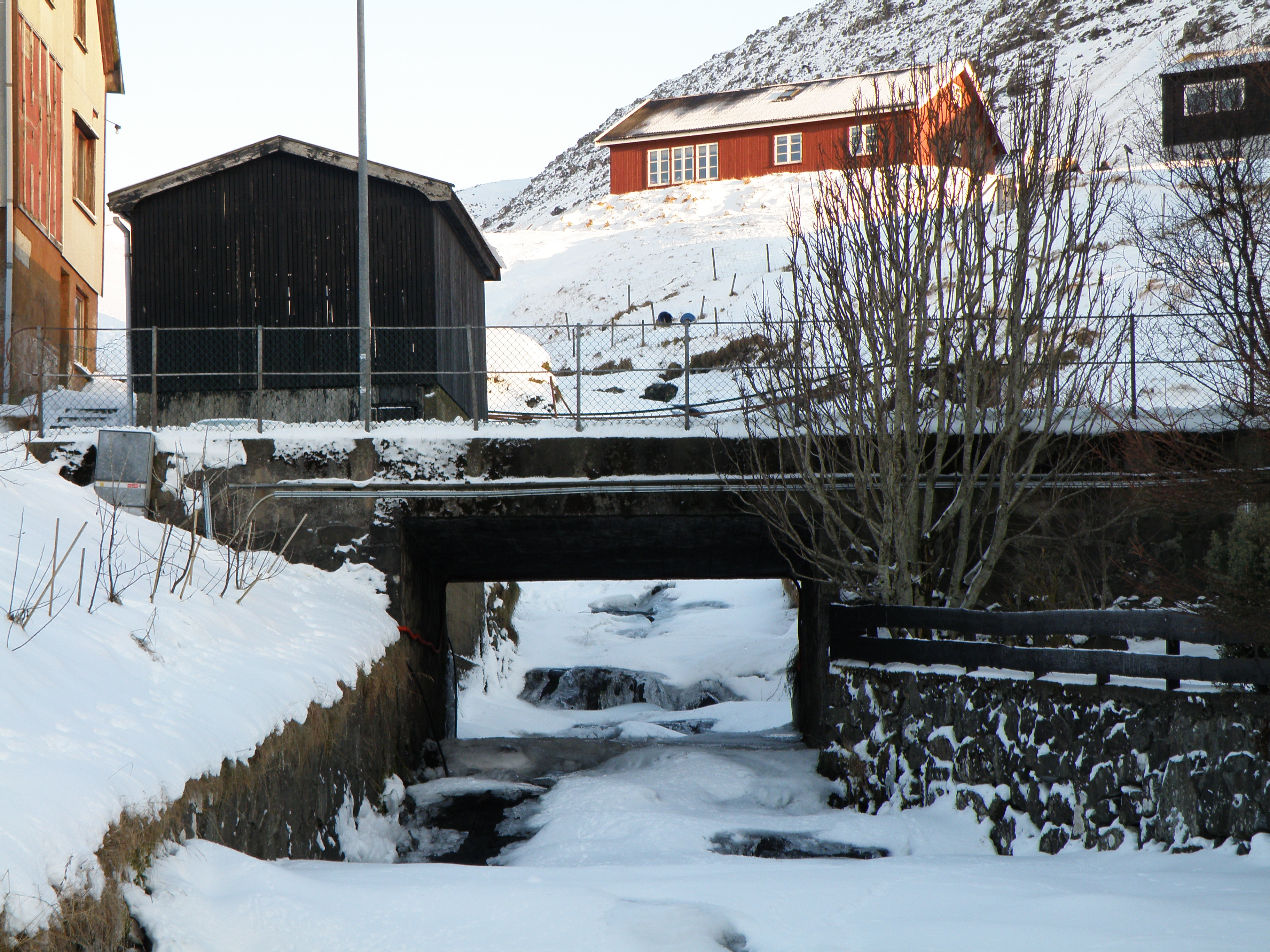 Sørvágur is a village on Vágar island in the Faroe Islands. There is only one airport in the Faroes, it is located just east of Sørvágur.